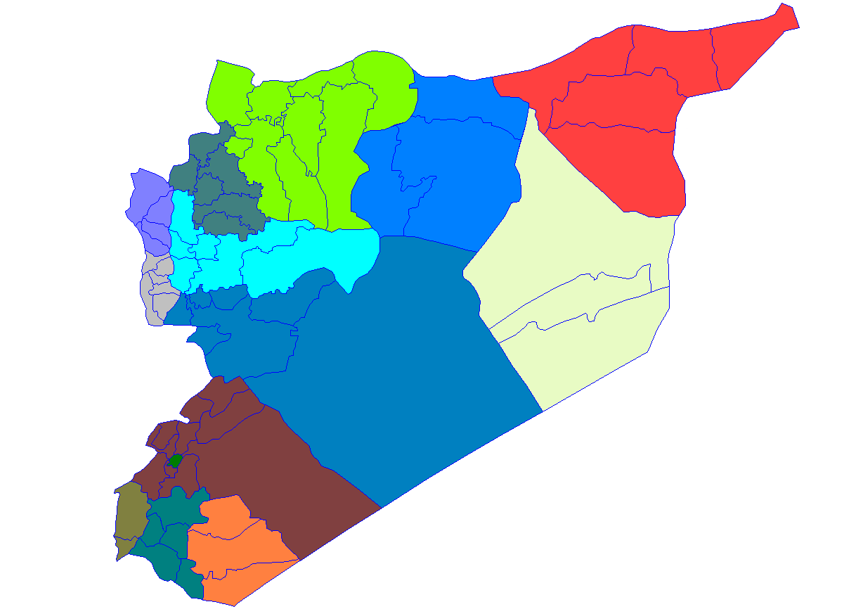 Historic map of the districts of Syria. It does not show districts that have been created since 2007, eg, Atarib, Dayr Hafir and Qudsaya.